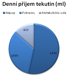 Water balance